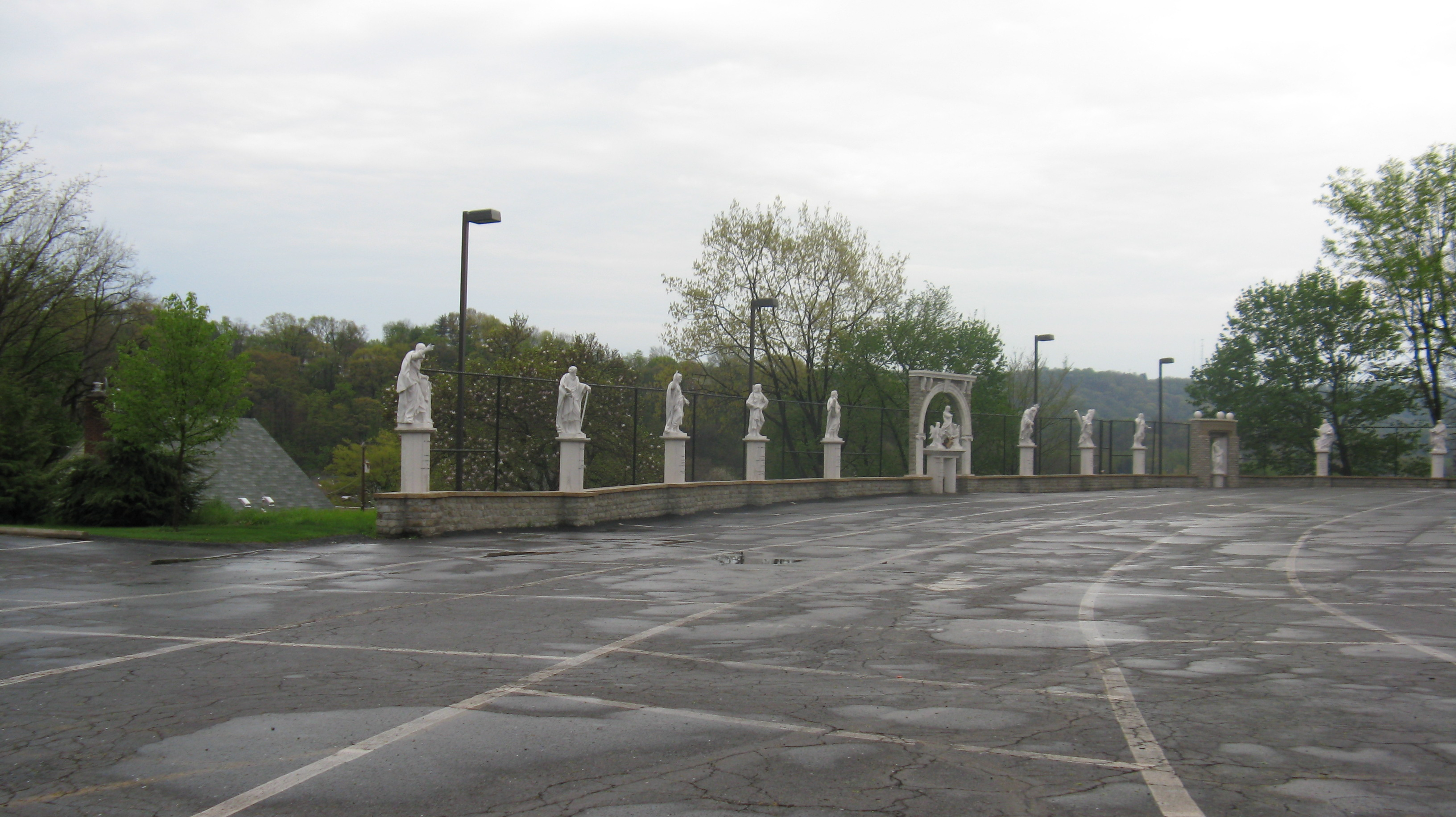 The back parking lot of the church where there are marble statues in memory of parishioners